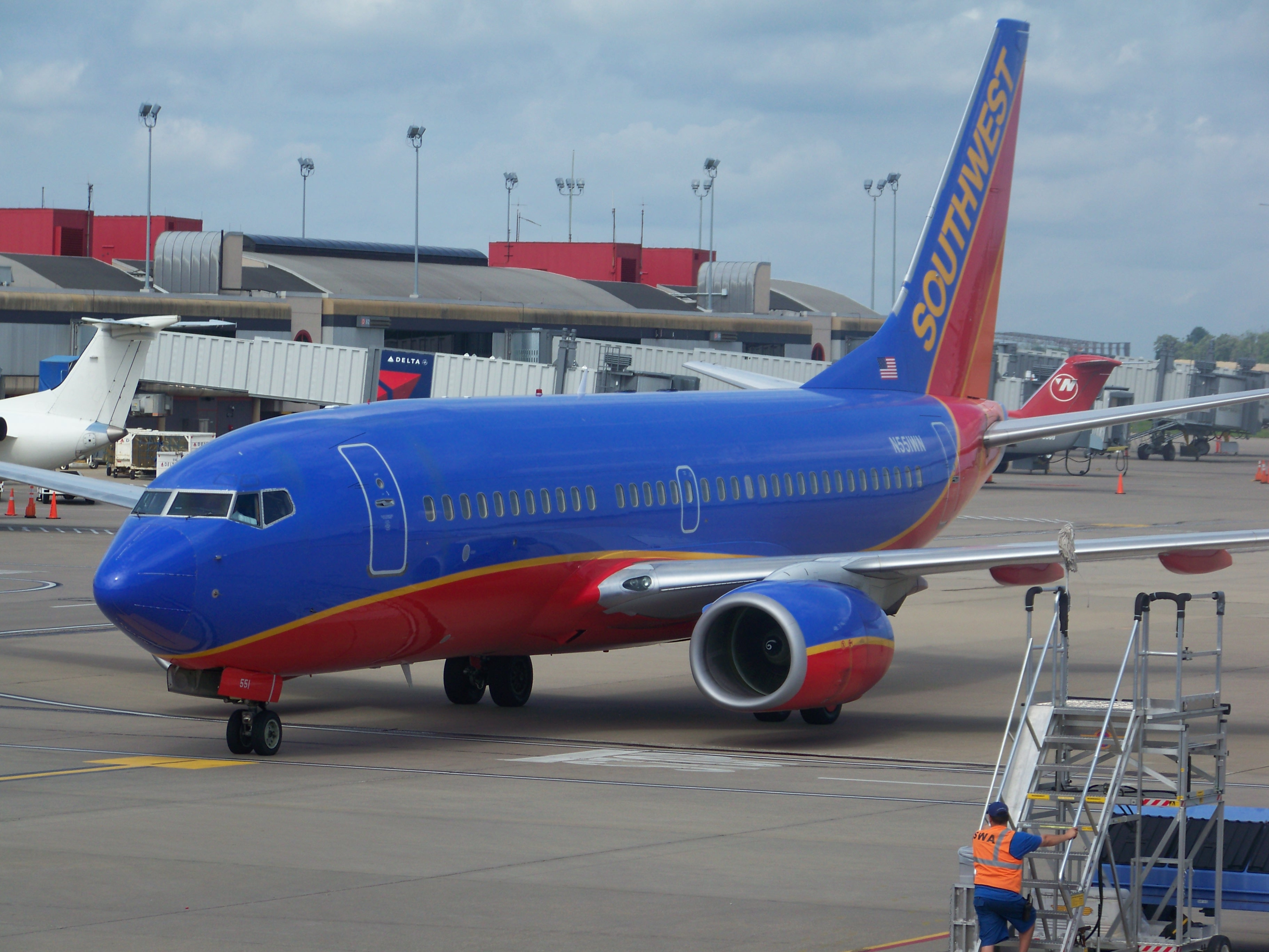 Southwest Airlines 737-700 at Pittsburgh International Airport